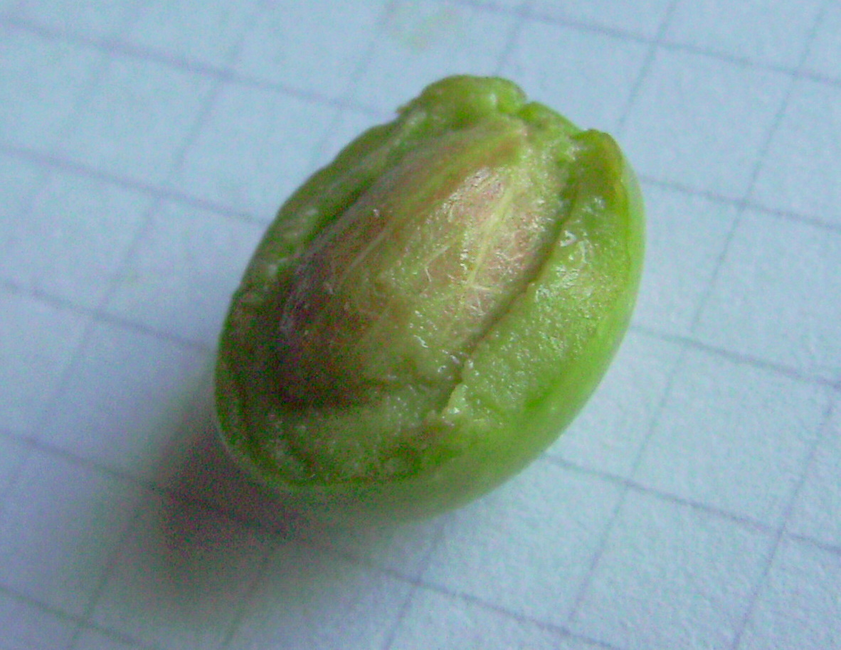 Olive drupe section, from a unknown cultivar, Castelltallat, Catalonia